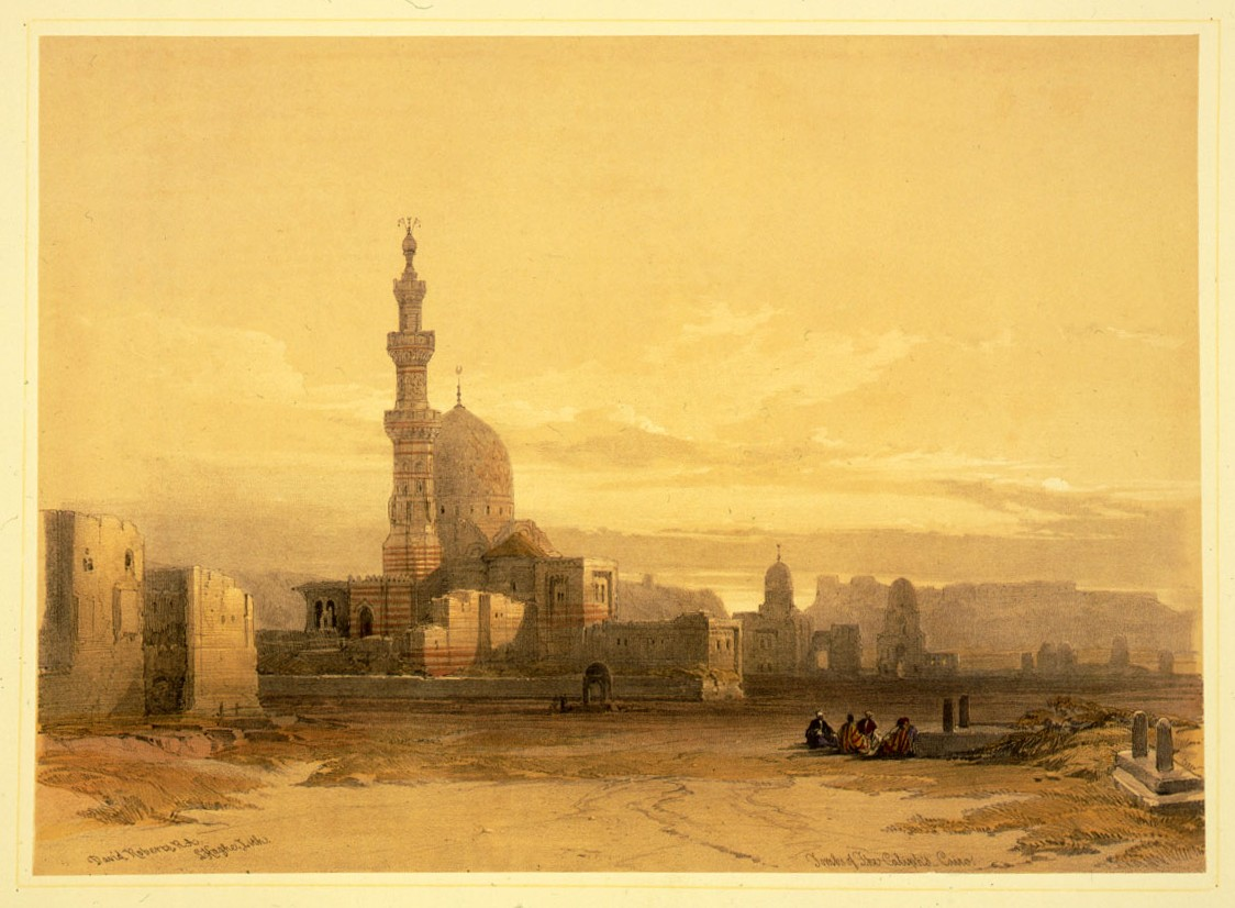 Picture of a print from David Roberts' Egypt & Nubia, issued between 1845 and 1849.